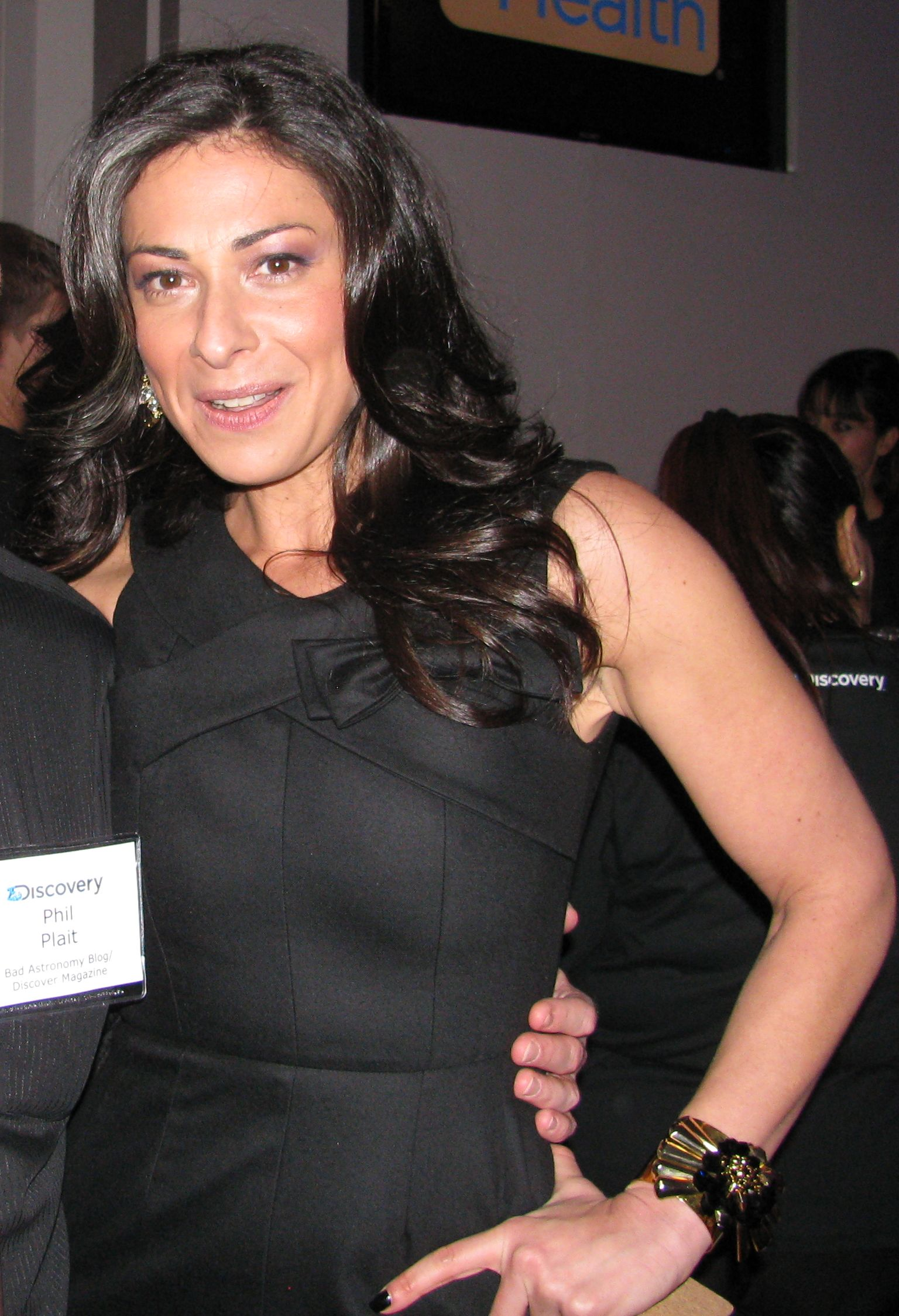 Stacy London from "What not to Wear".